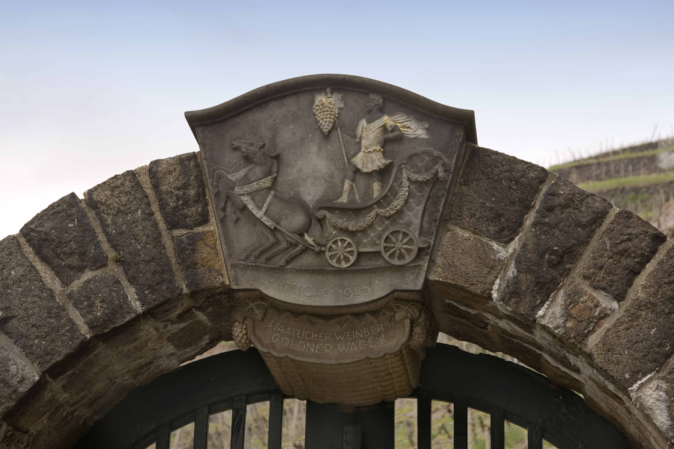 Vineyard "Goldner Wagen" Radebeul, Saxony